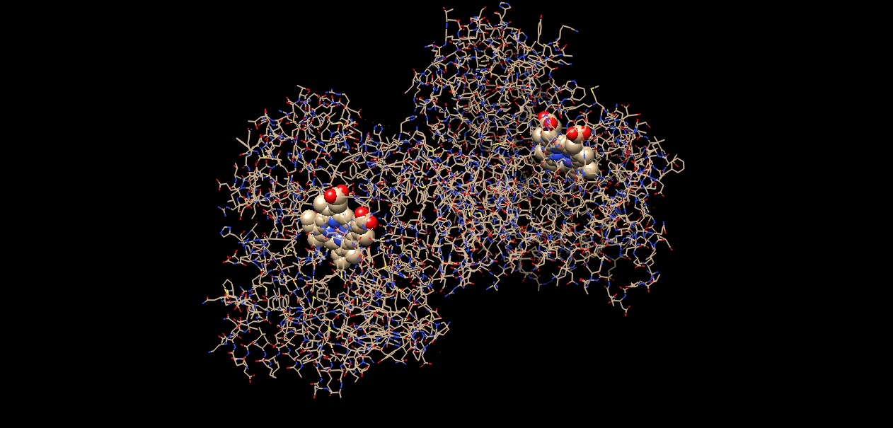 Processed image of the atomic structure of cholesterol 7-alpha-hydroxylase